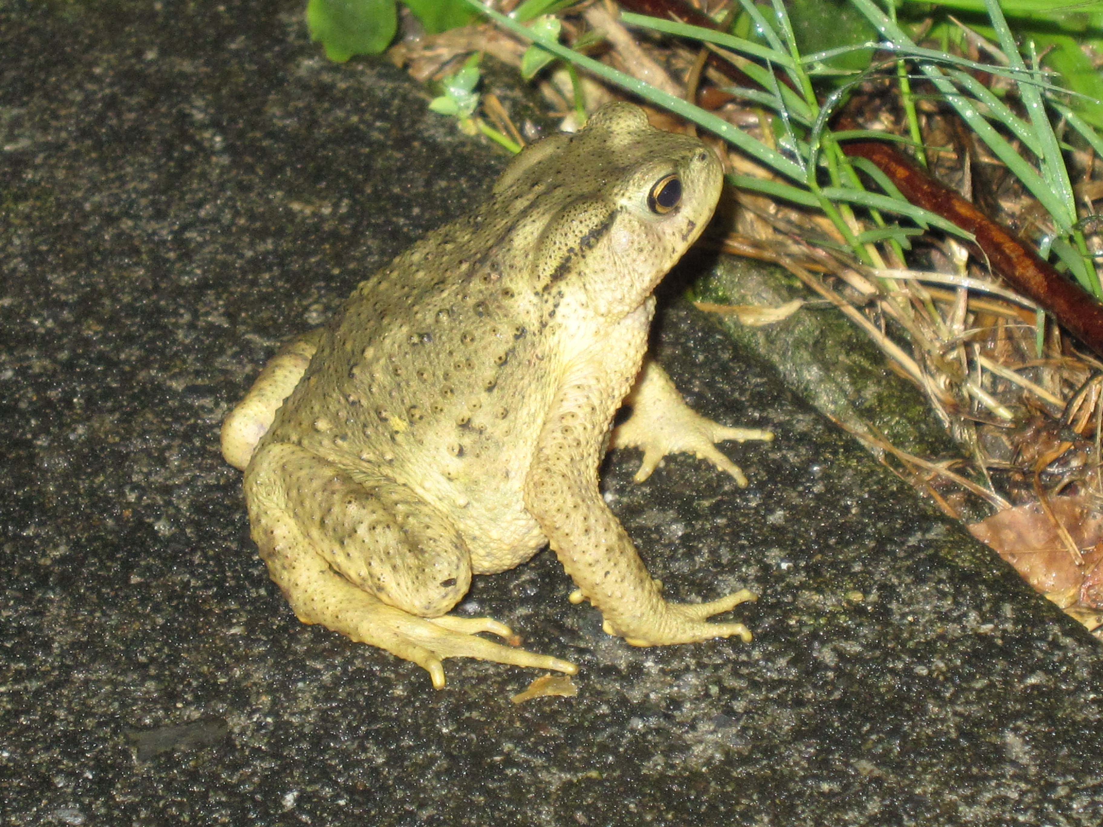 A Bufo bankorensis in Taroko canyon, Taiwan